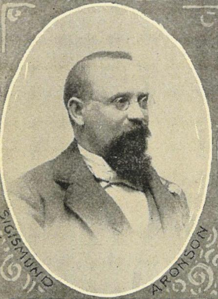 Sigismund Aronson of the Schwabacher Hardware Co. and Schwabacher Brothers, Seattle, Washington. In the late 19th and early 20th century, Schwabacher Brothers were Seattle's (and the regions) leading wholesale grocers of the time; they also owned a wharf and one of the city's most prominent hardware stores. Aronson was also president of Seattle's first Jewish congregation, Ohaveth Sholum.